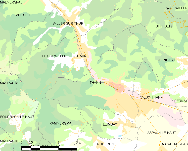 Map of French municipality